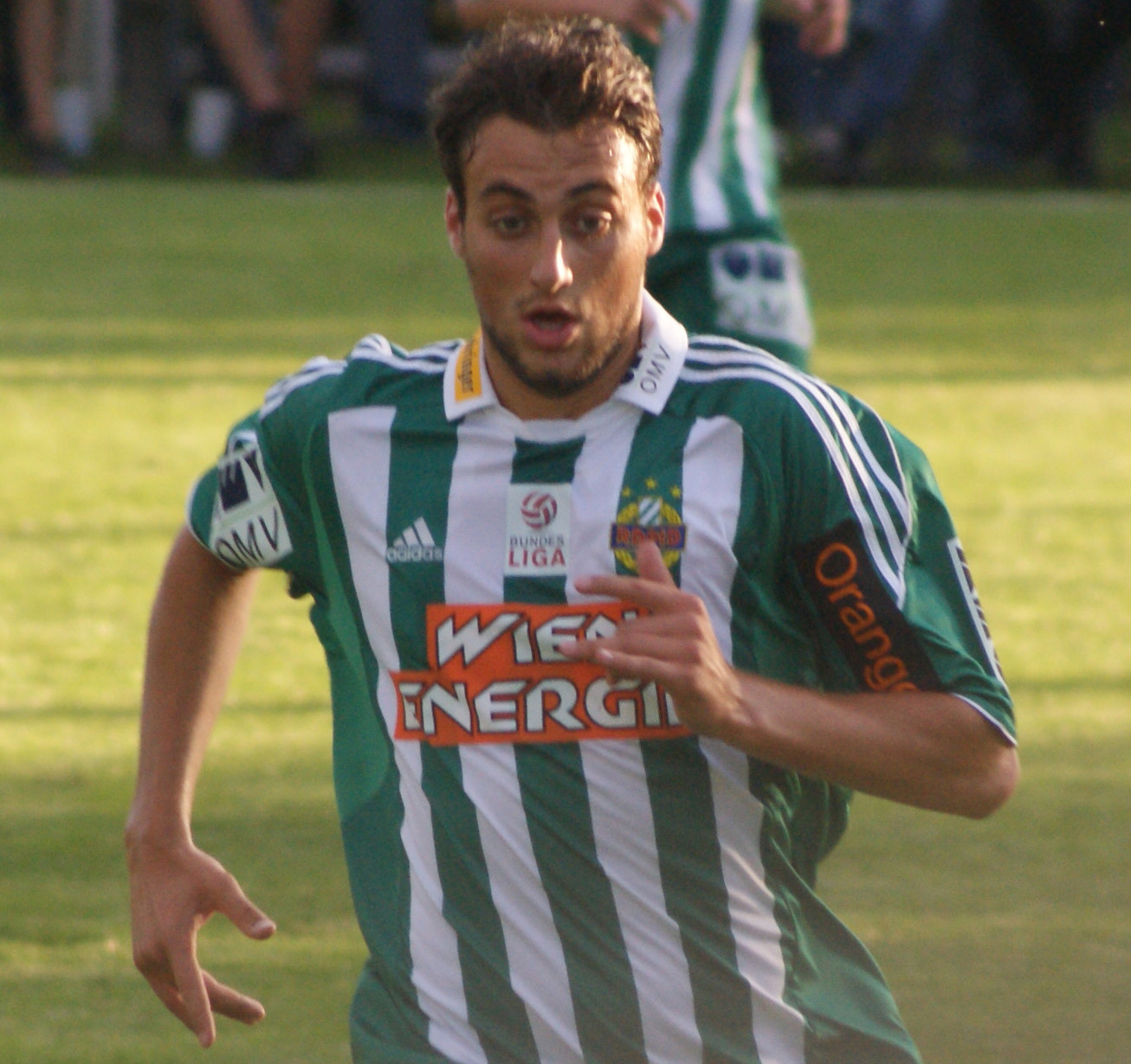 Austrian football player Atdhe Nuhiu